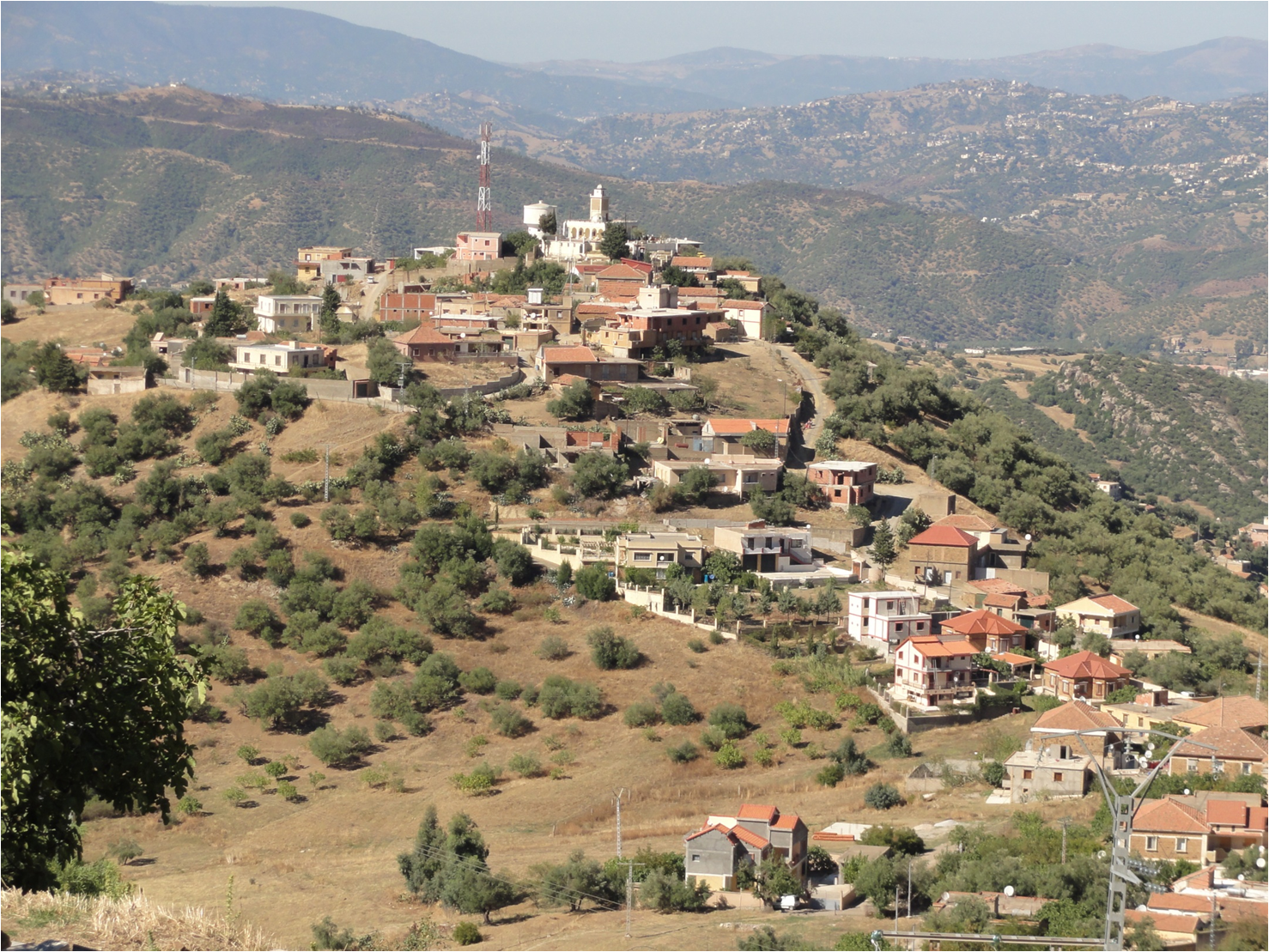 Village Awrir of Bounouh